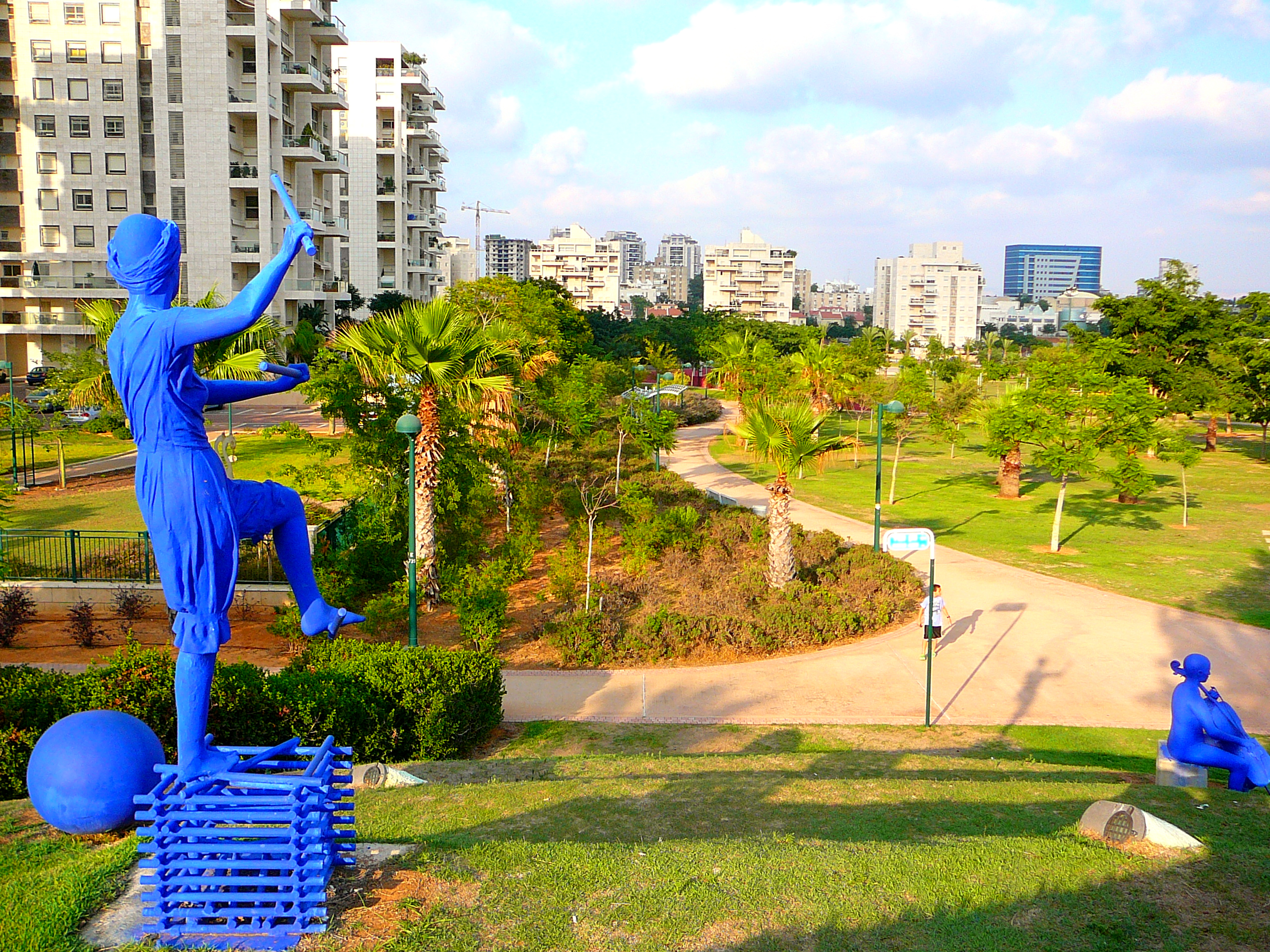 Cities in Israel